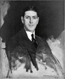 Painting by Leopold Seyffert of Samuel S. Fleisher